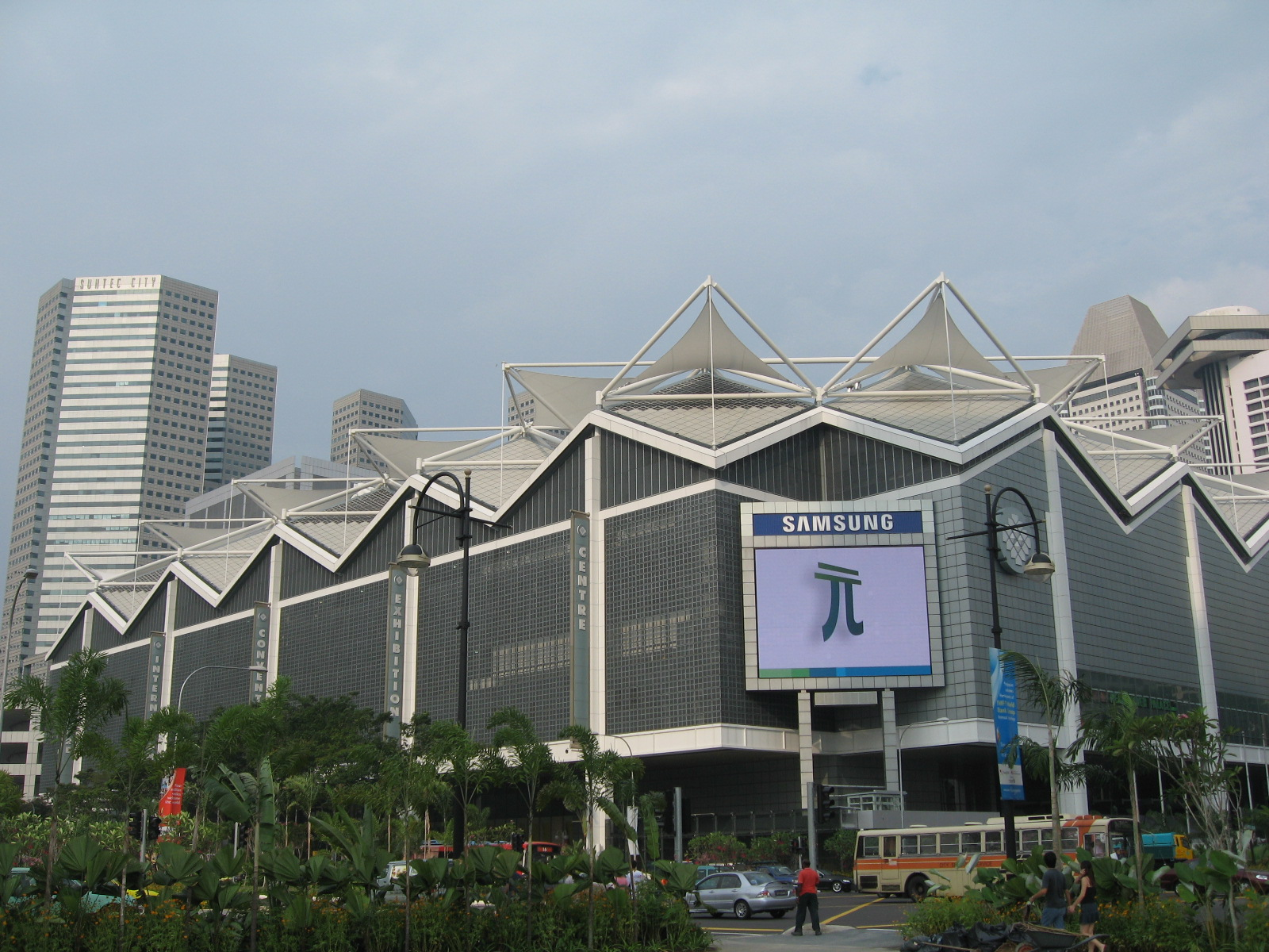 Suntec Singapore International Convention and Exhibition Centre.